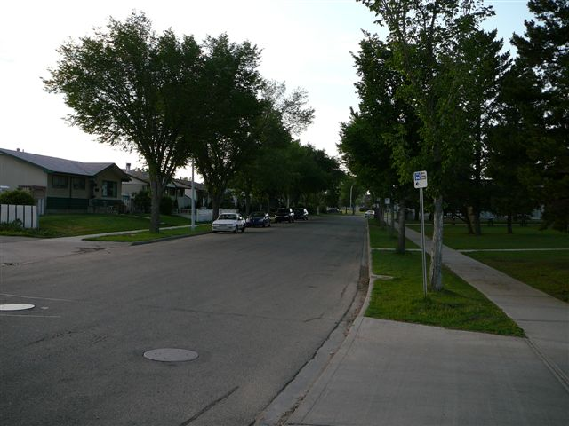 I took this picture myself on June 21, 2007